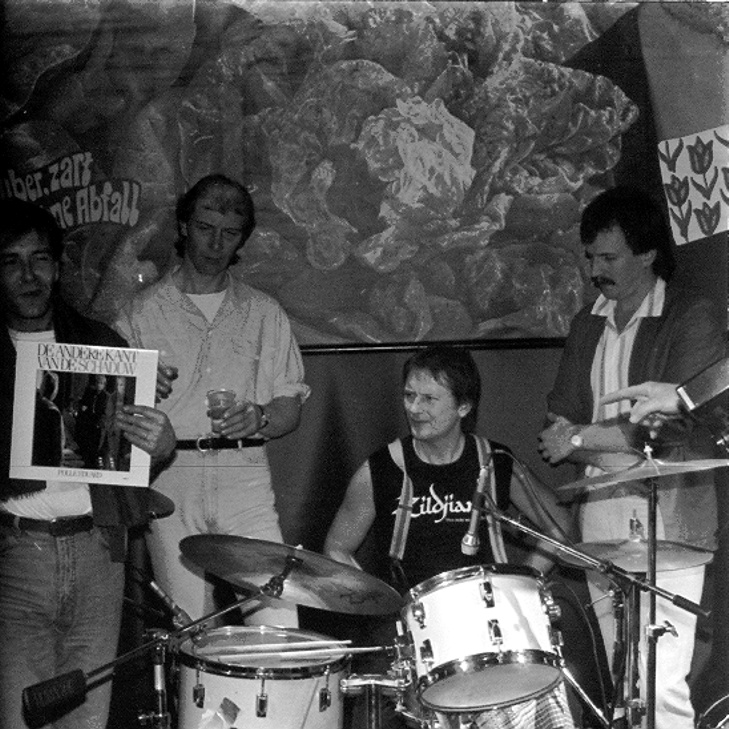 Polle Eduard Band na optreden in Alphen aan de Rijn, 28 feb 1987, met hun nieuwe album "De andere kant van de schaduw". Achter het drumstel Ab Tamboer